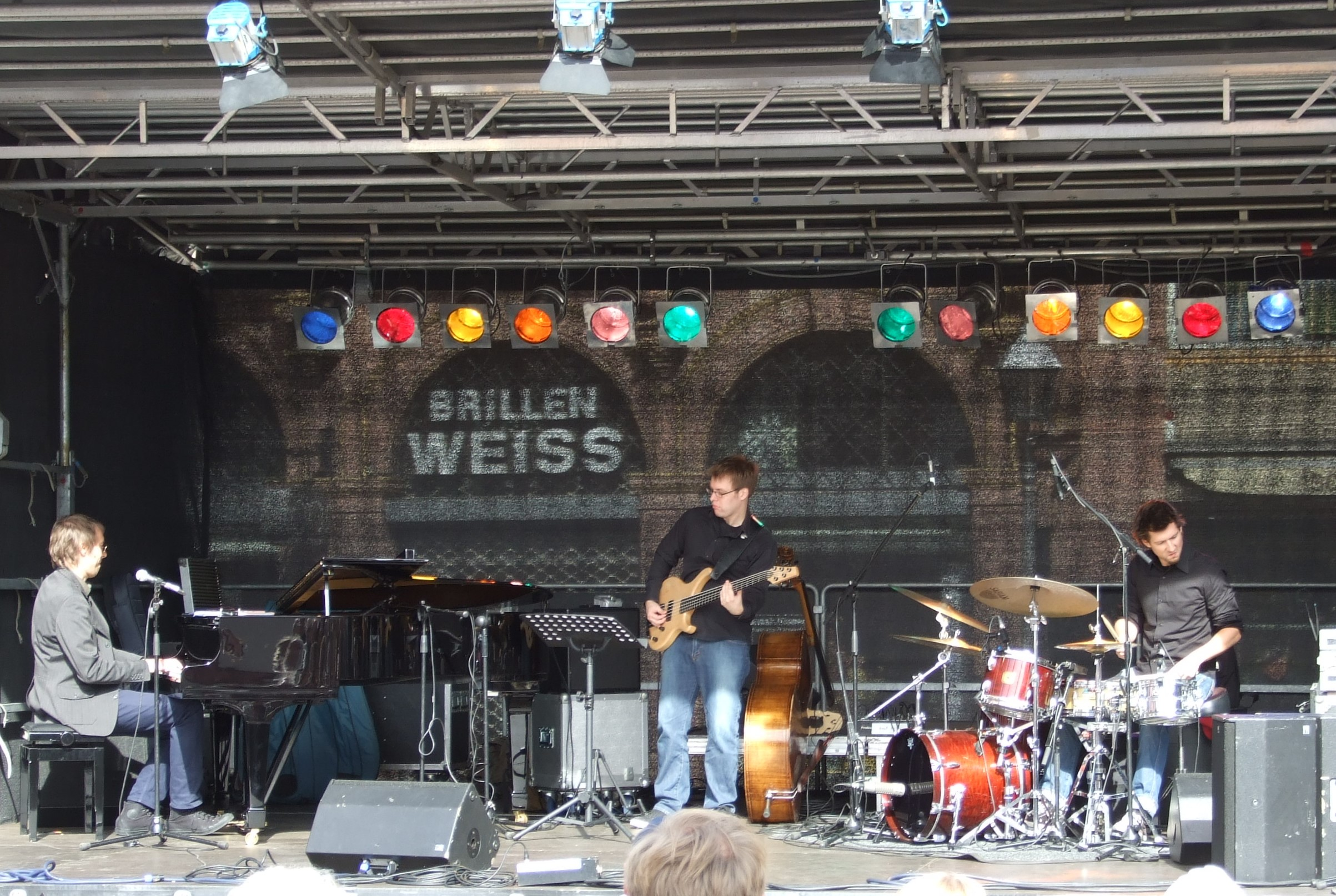 "Matthias Vogt Trio" at "Roemerberg" in Frankfurt on National Day (2009), by "Jazz zum Dritten".